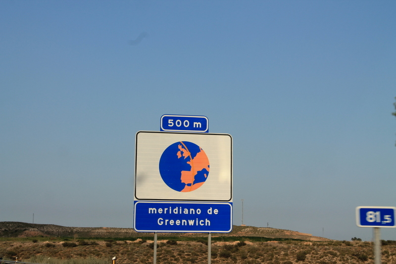 Sign at prime meridian East of Zaragoza